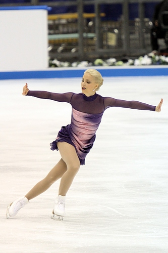 Kiira Korpi at the 2010 NHK Trophy.